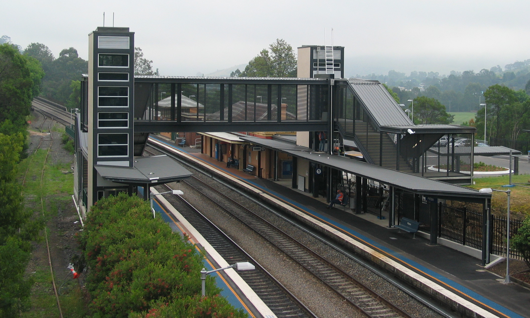 Showing newly constructed overhead footbridge and passenger elevators at Picton railway Station, NSW, Australia